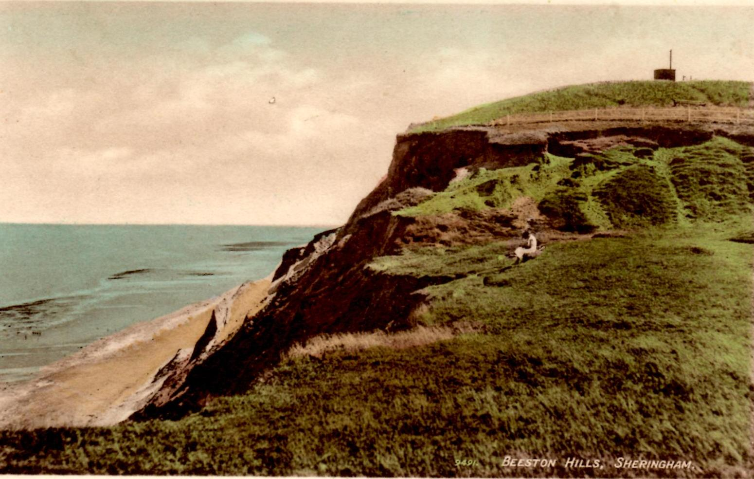 A Postcard of The Y Station on Beeston Hill in Sheringham Norfolk